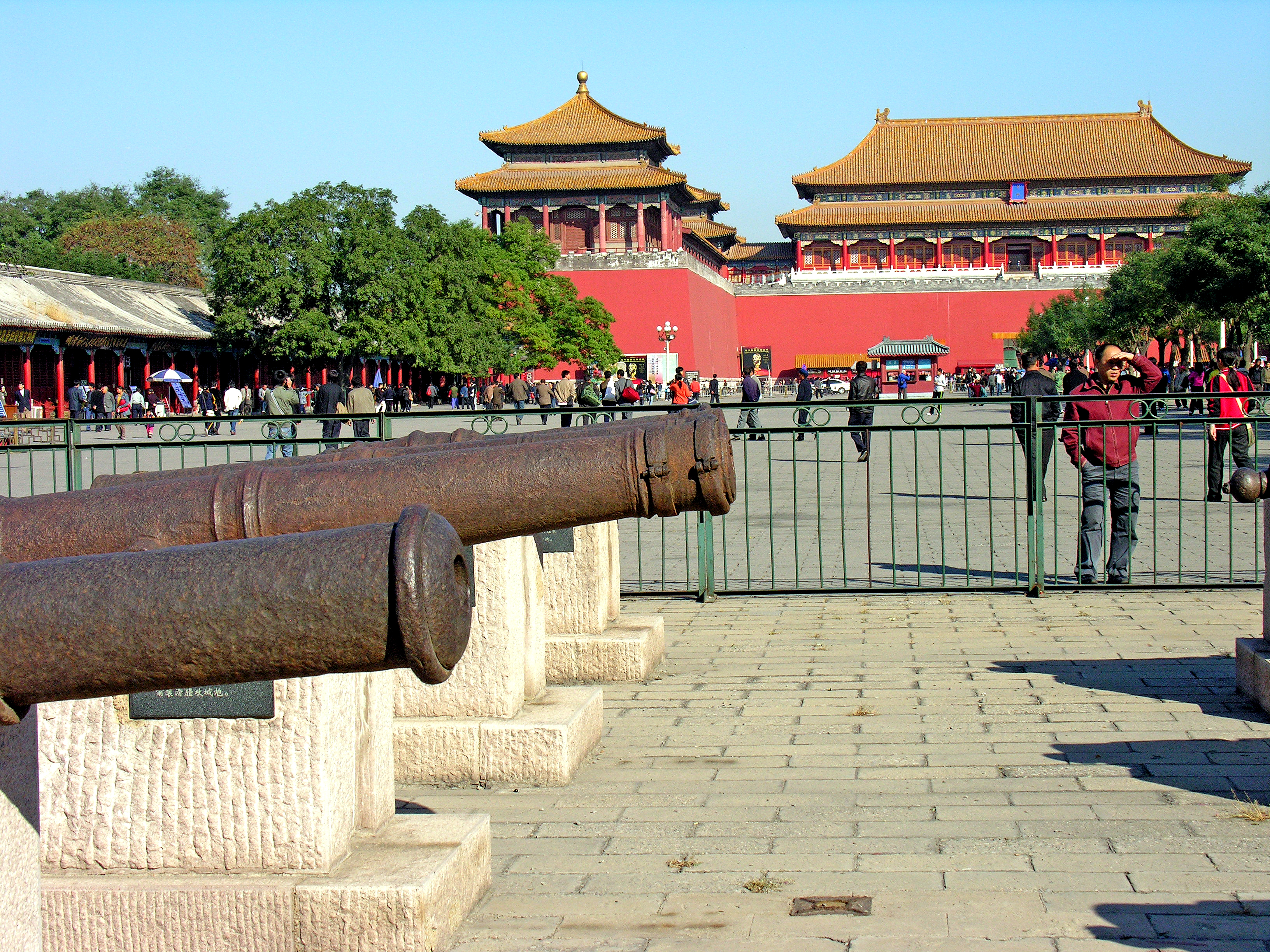 (view N) Some old cannons with the Meridian Gate in the background.